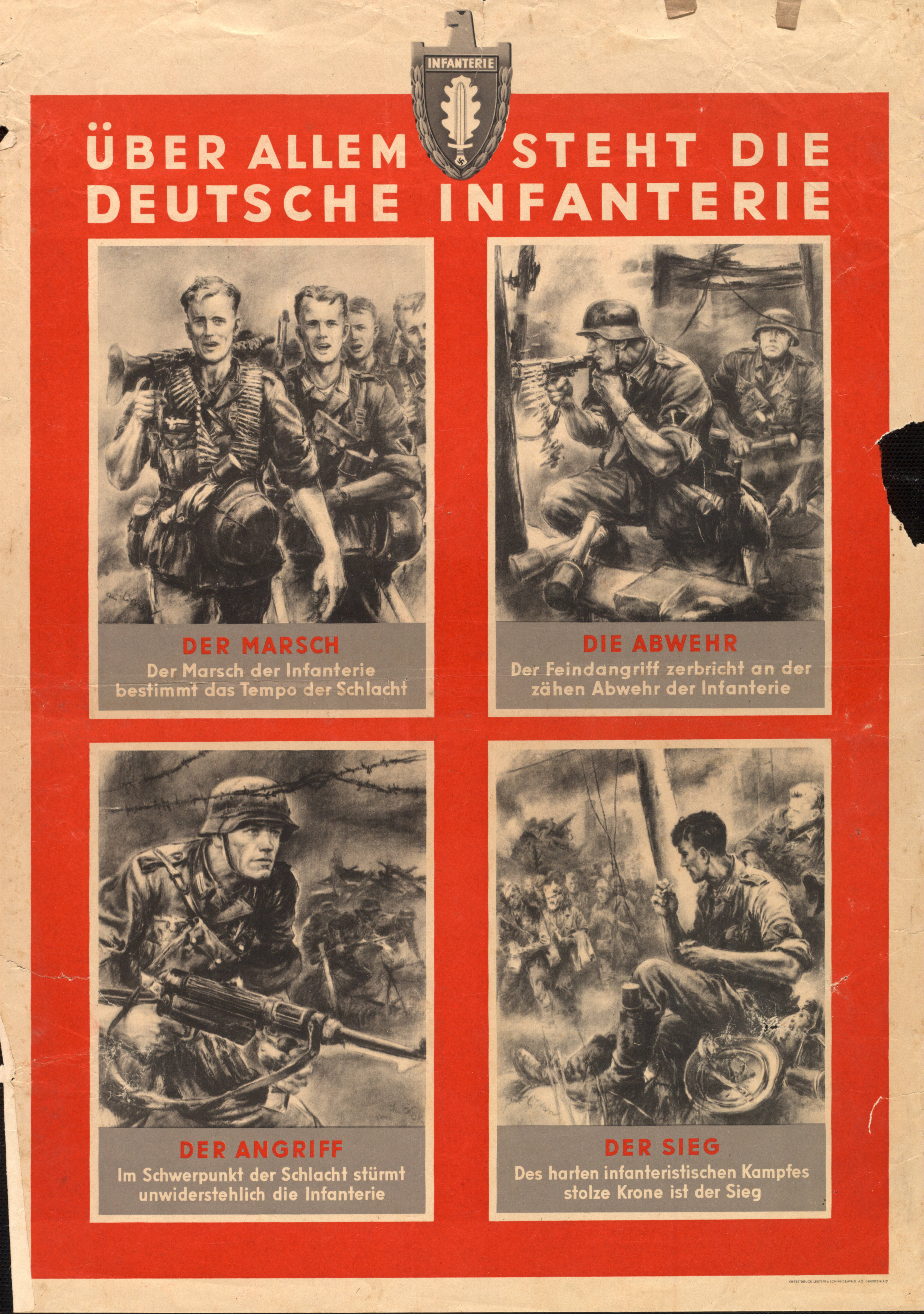 "Above All Comes the German Infantry"—Nazi propaganda poster